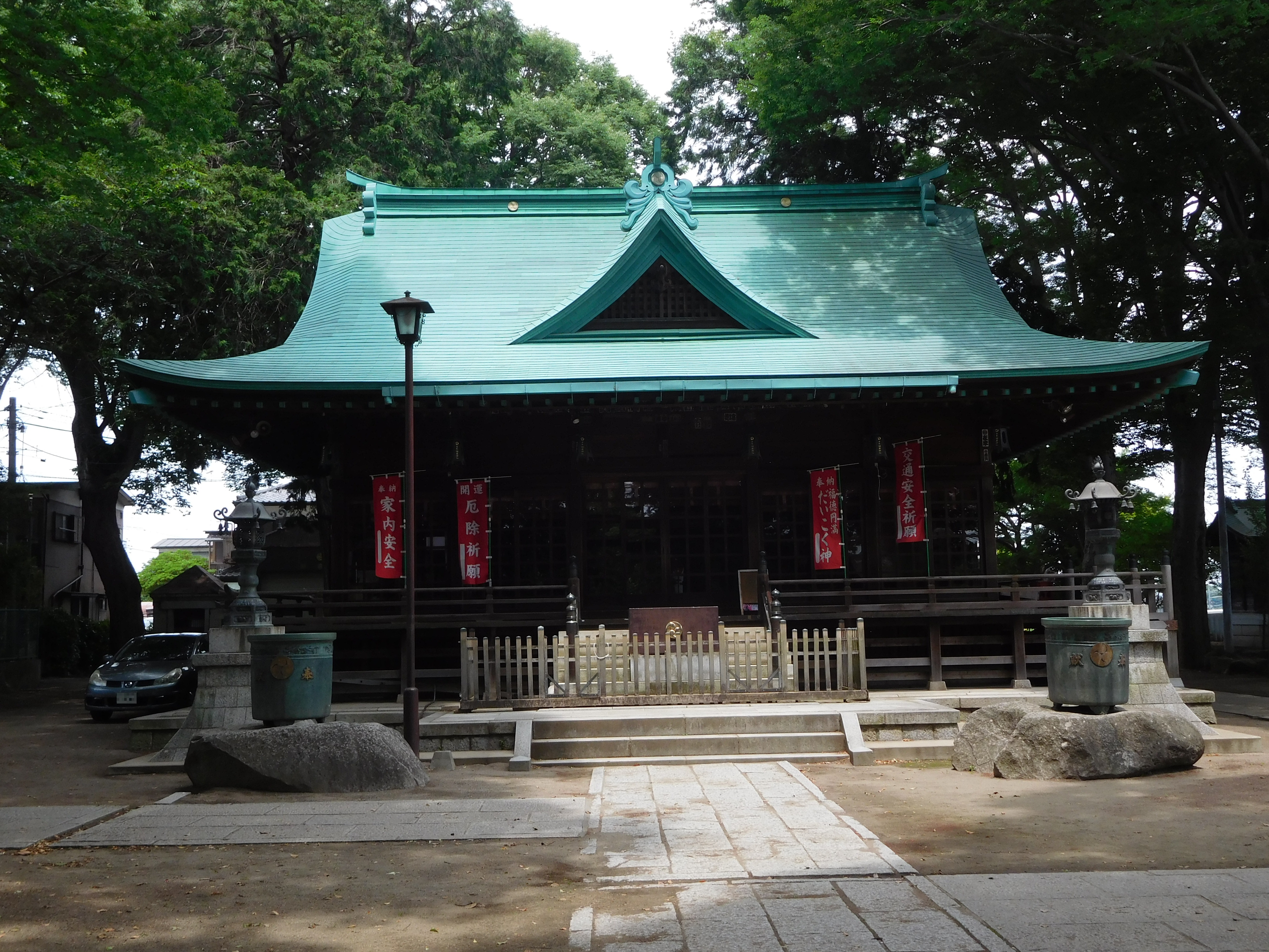 This is Haiden of Shimodate Haguro Shrine in Chikusei, Ibaraki, Japan.